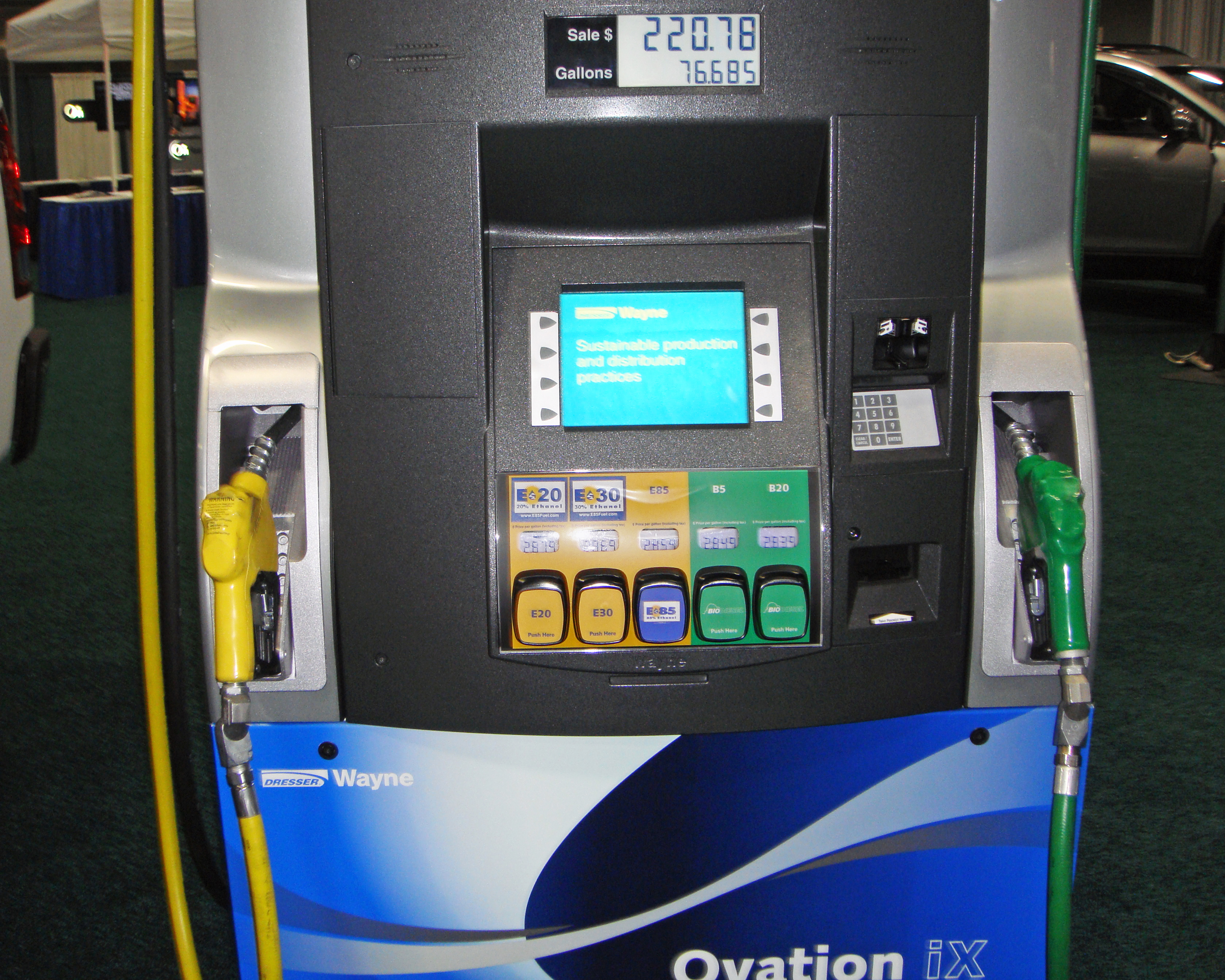 Dresser Wayne multifuel blender pump (Ovation Series)offering E20, E30, E85, B5, and B20, exhibited at the 2010 Washington Auto Show